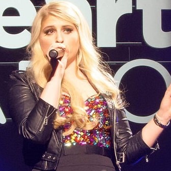 Q102 Philly Jingle Ball 2014